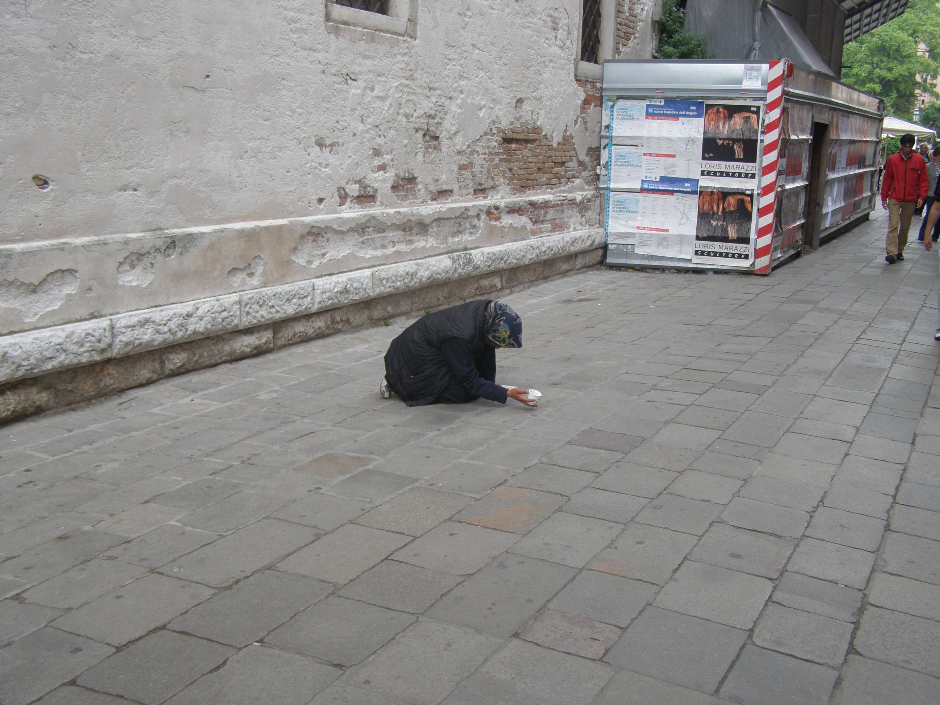 Beggar in Venis, May 2008